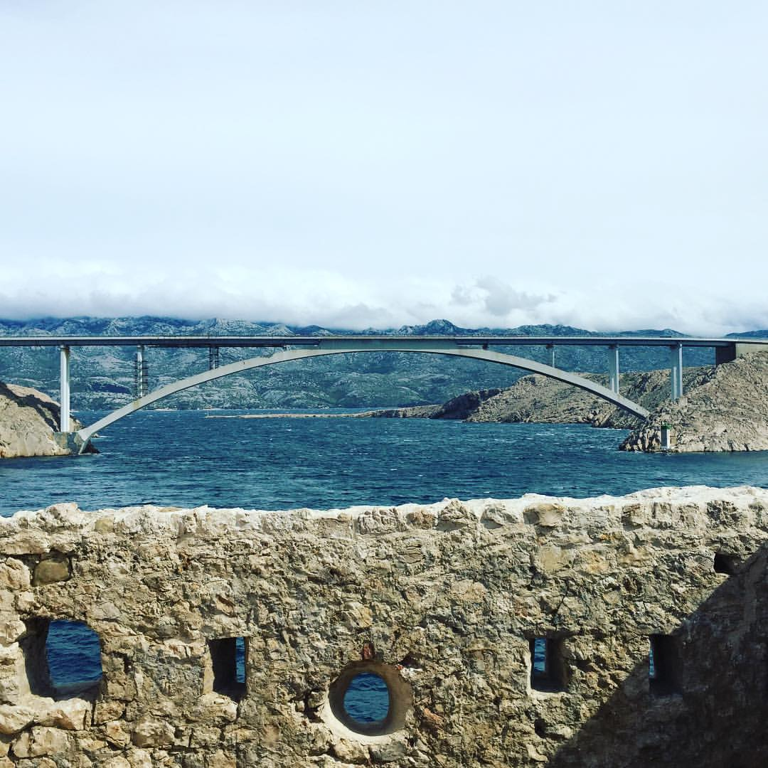 A day of bora in the south of Pag island.